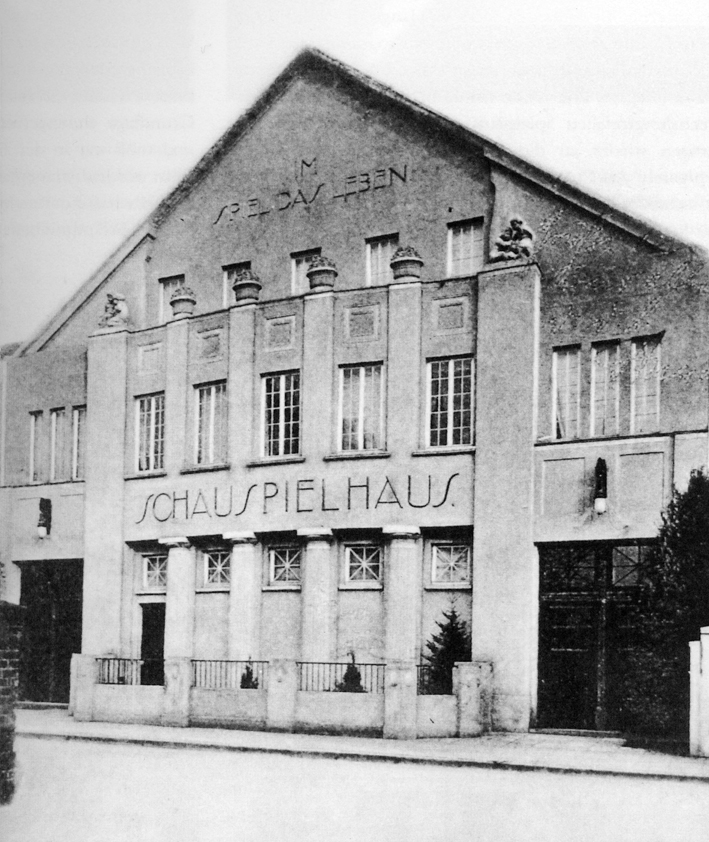 The former theater Schauspielhaus in the street Neustadtswall in Bremen, Germany. Established 1910 by Eduard Ichon and Johannes Wiegand.